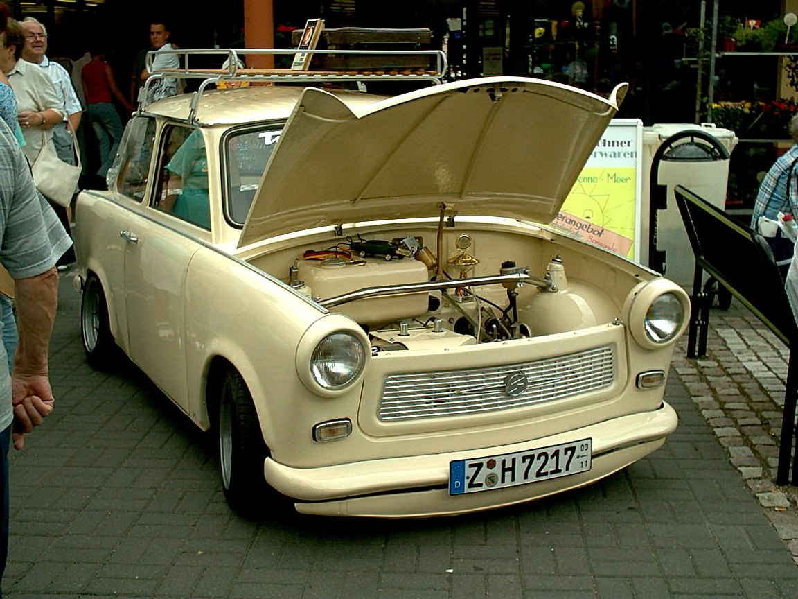 Tuned Trabant 601